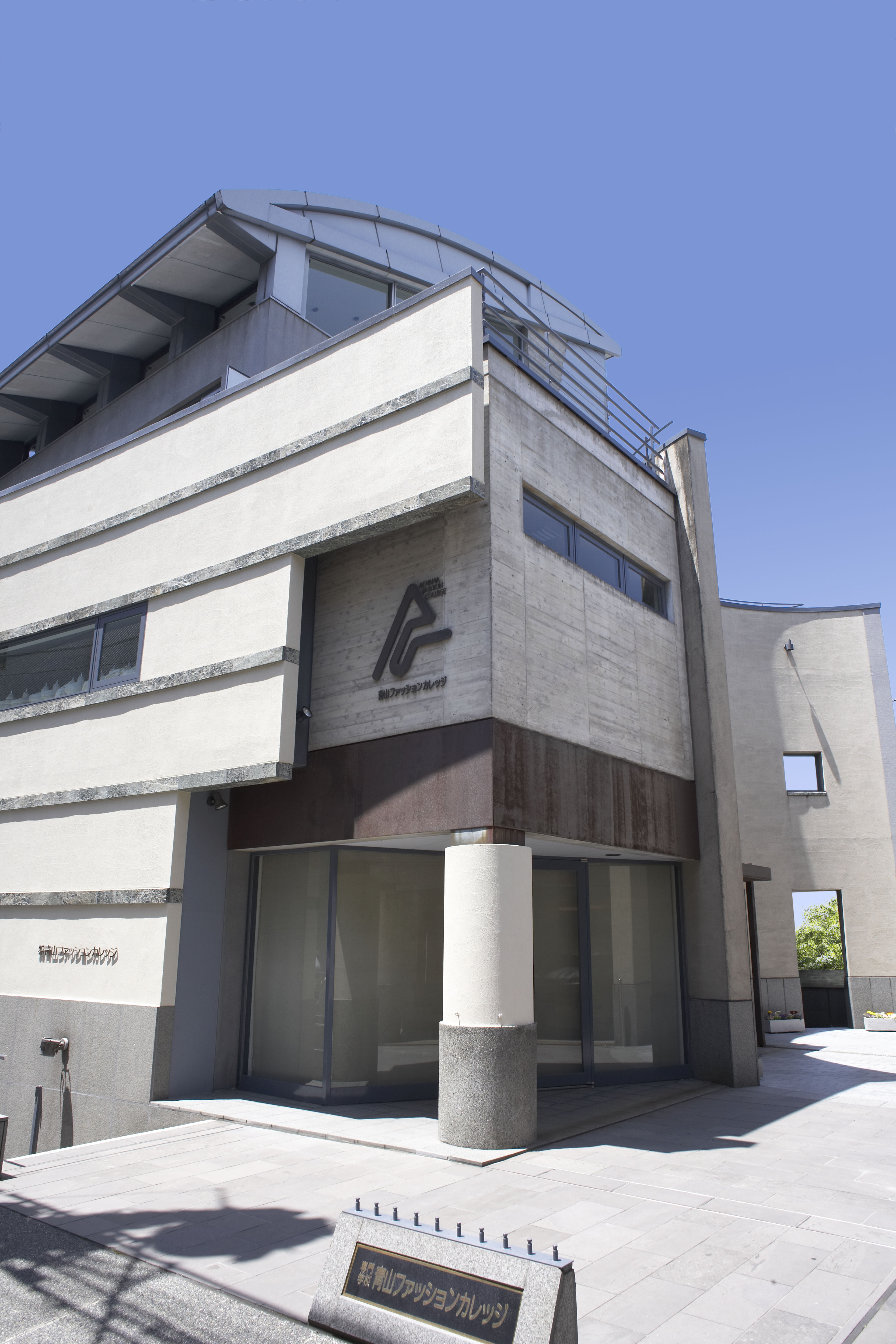 Aoyama fashion College